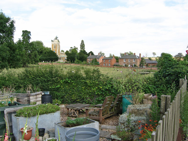 Beeby, Leicestershire. A few miles beyond the north-eastern outskirts of Leicester lies the tiny village of Beeby with a few houses, the Rectory and All Saints Church. The cottage garden in the foreground is a fascinating collection of plants in every conceivable container!